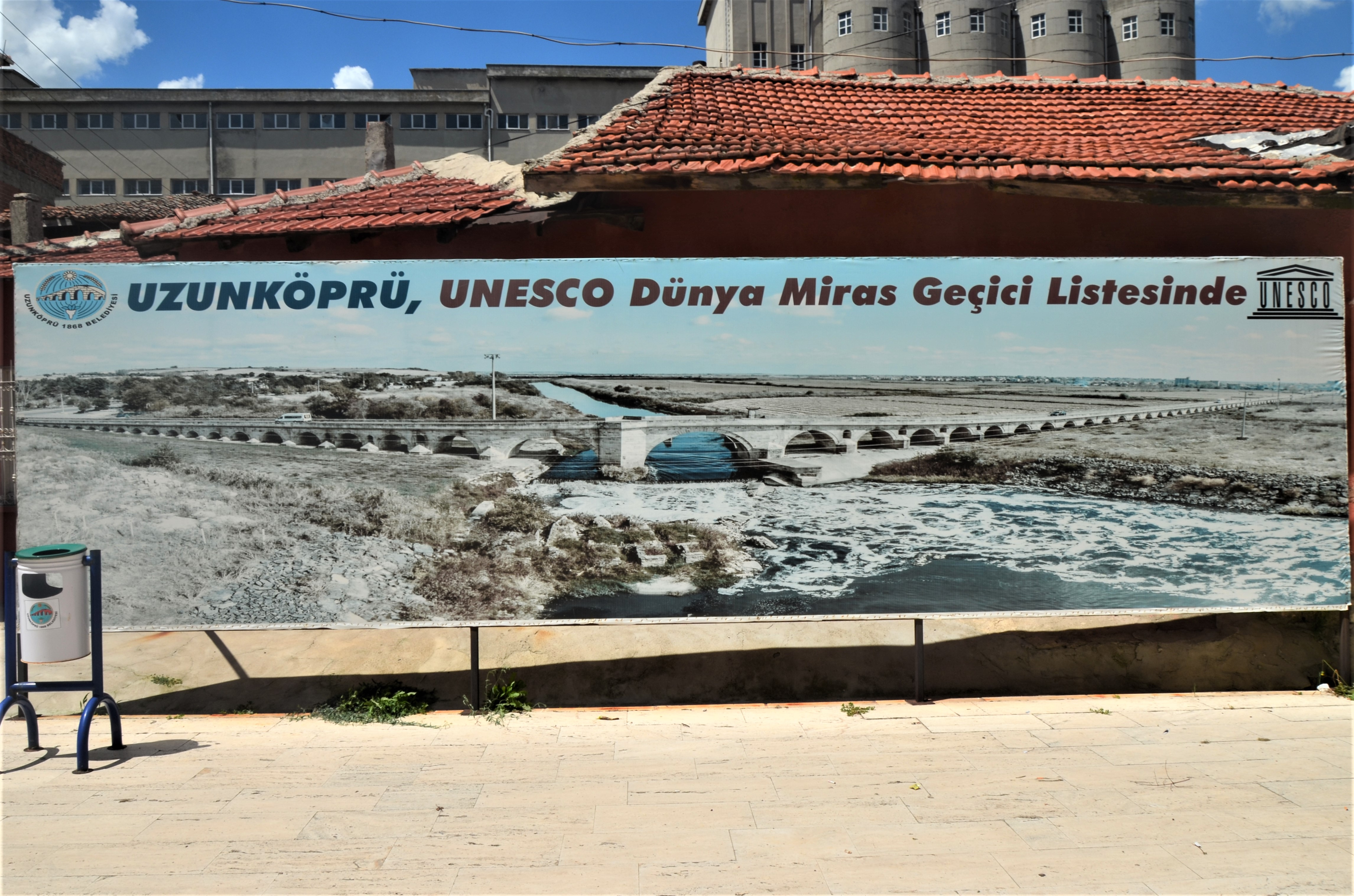 Uzun köprü (The Long Bridge) at Uzunköprü is on the UNESCO World Heritage site Tentative List.